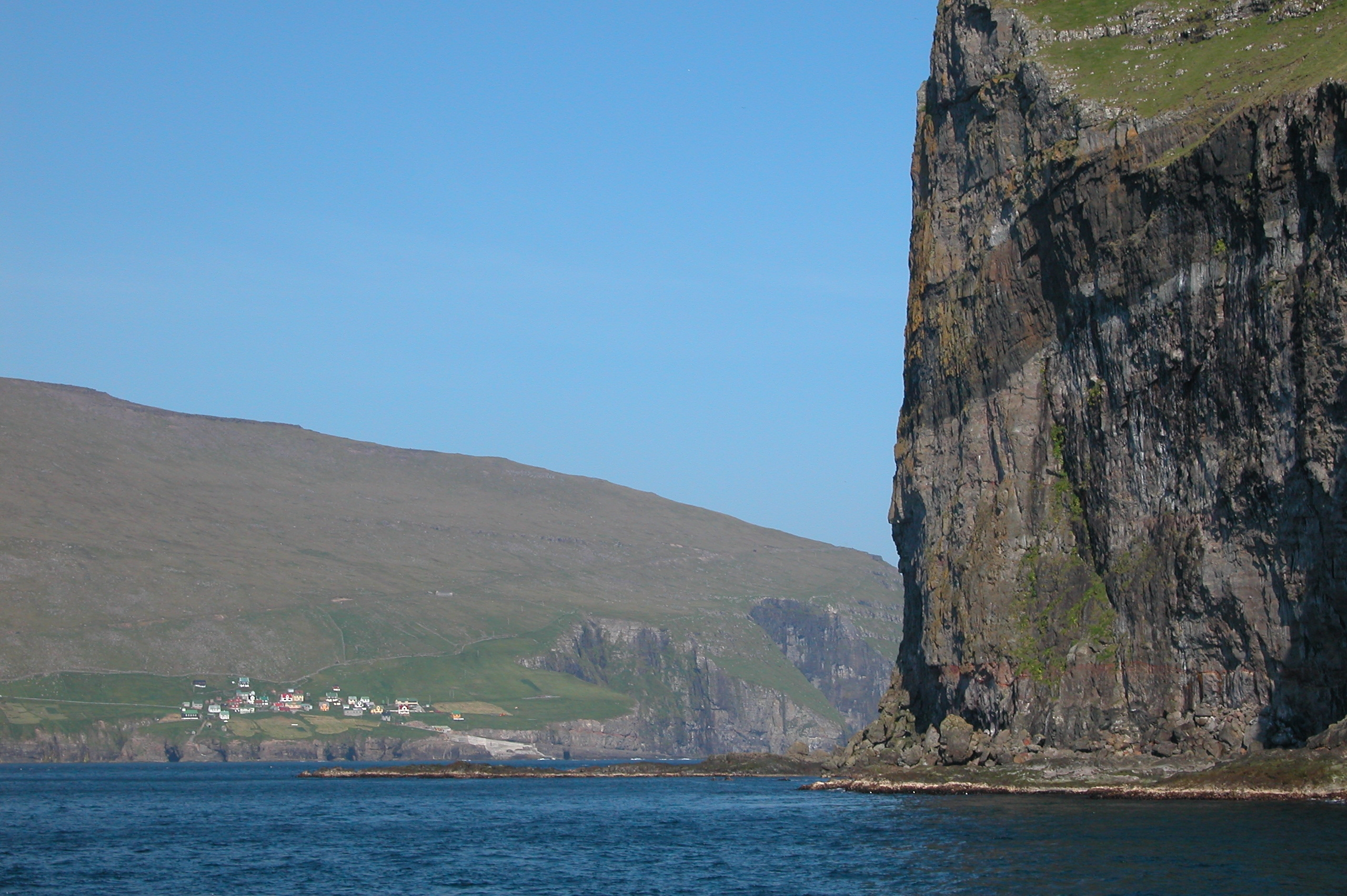 Kirkja on Fugloy, Faroe Islands. (a cliff of Svínoy in the foreground)